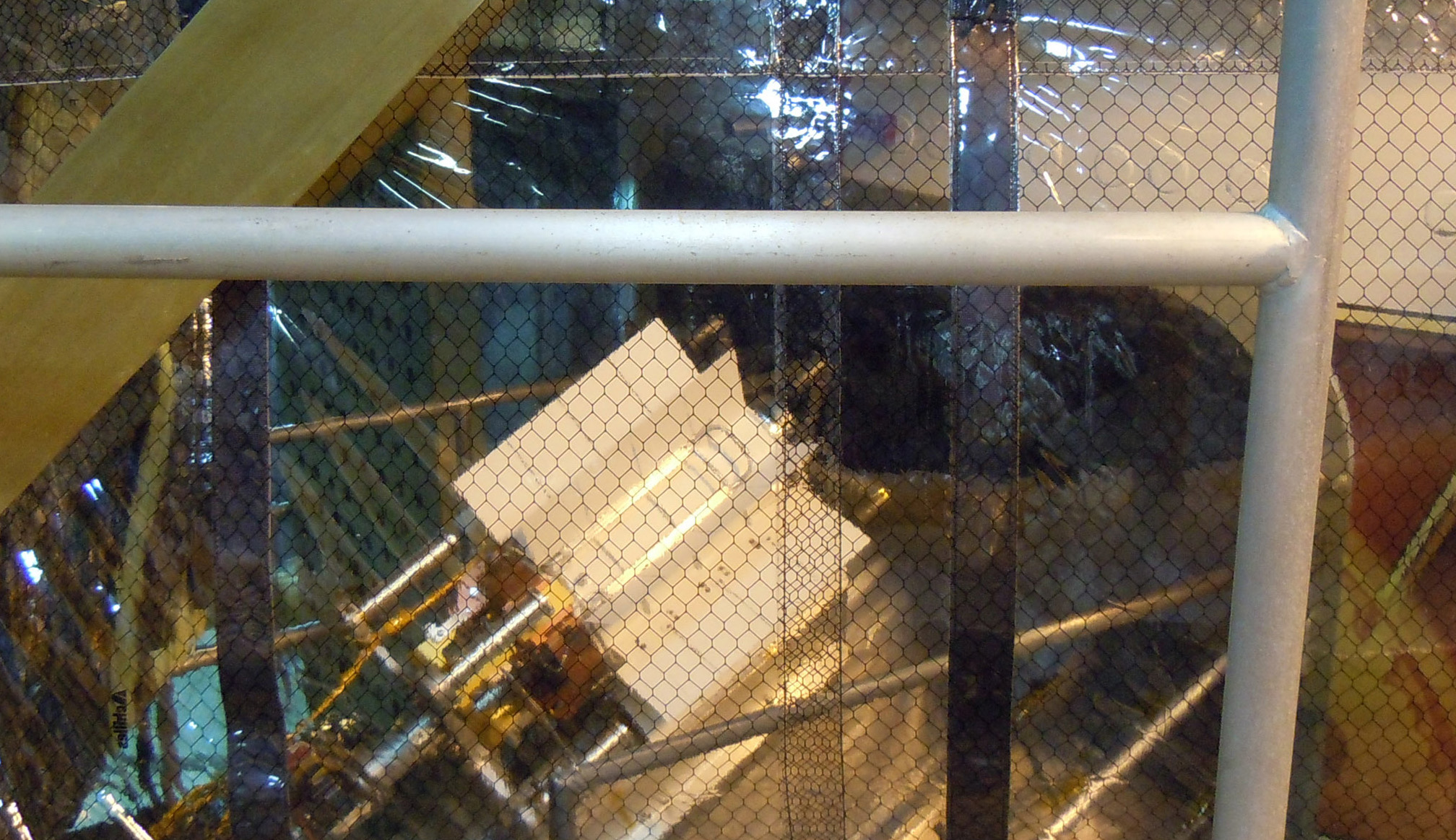 CAPE CANAVERAL, Fla. -- In the Vertical Integration Facility at Space Launch Complex-41 on Cape Canaveral Air Force Station, the multi-mission radioisotope thermoelectric generator (MMRTG) for NASA's Mars Science Laboratory (MSL) mission, secured to a turning fixture, is positioned on the radioisotope power system integration cart (RIC). The MMRTG will be installed on the Curiosity rover with the aid of the RIC. The MMRTG will generate the power needed for the mission from the natural decay of plutonium-238, a non-weapons-grade form of the radioisotope. Heat given off by this natural decay will provide constant power through the day and night during all seasons. Curiosity, MSL's car-sized rover, has 10 science instruments designed to search for signs of life, including methane, and help determine if the gas is from a biological or geological source. Waste heat from the MMRTG will be circulated throughout the rover system to keep instruments, computers, mechanical devices and communications systems within their operating temperature ranges. Launch of MSL aboard a United Launch Alliance Atlas V rocket is scheduled for Nov. 25. For more information, visit